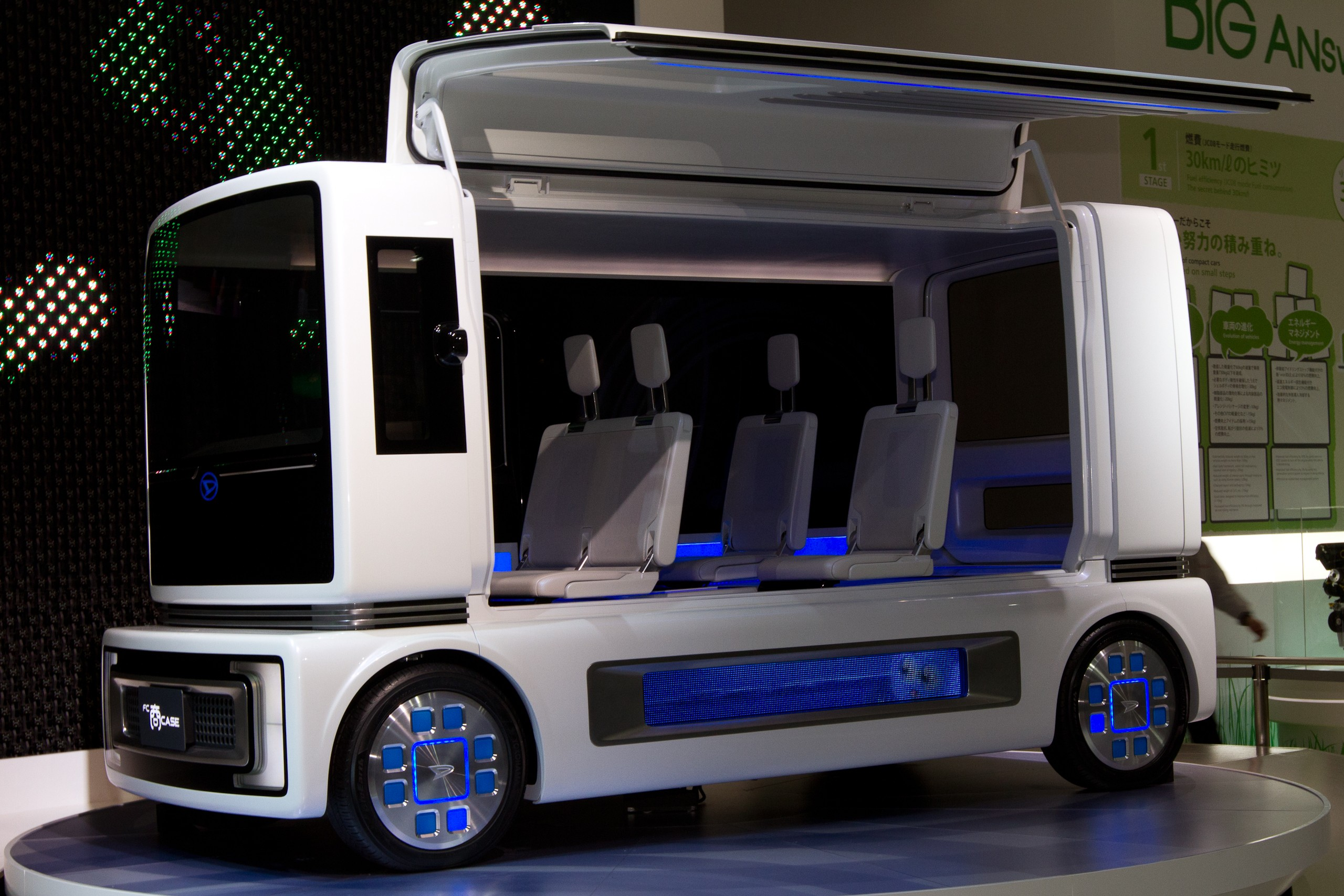 Tokyo Motor Show 2011: Daihatsu FC Showcase